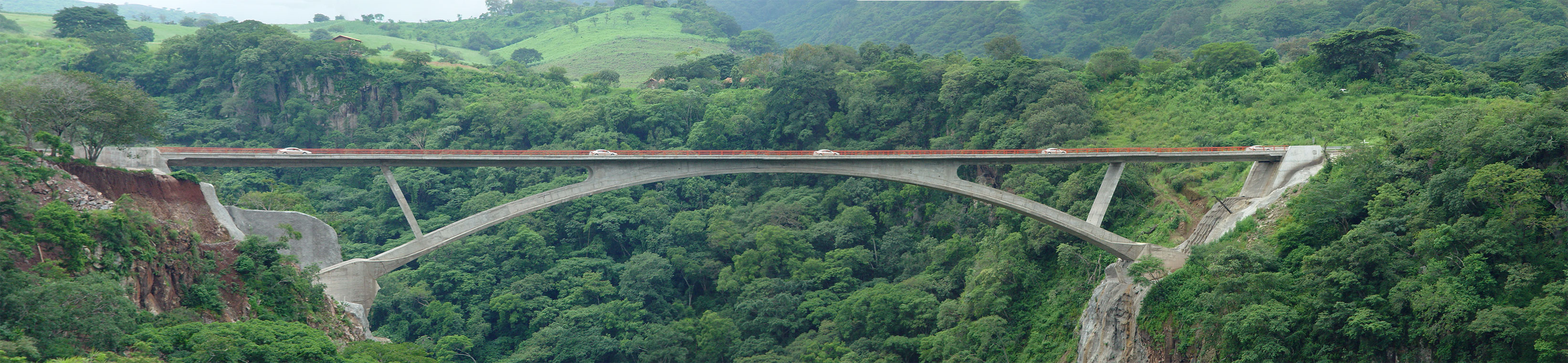 "El Progreso" bridge shortens the time to travel between Puerto Vallarta, Jalisco and the ancient mining town of San Sebastian by at least half an hour. This is a 4 shot photo-montage. The 4 cars on the bridge are really one and the same as it transits.